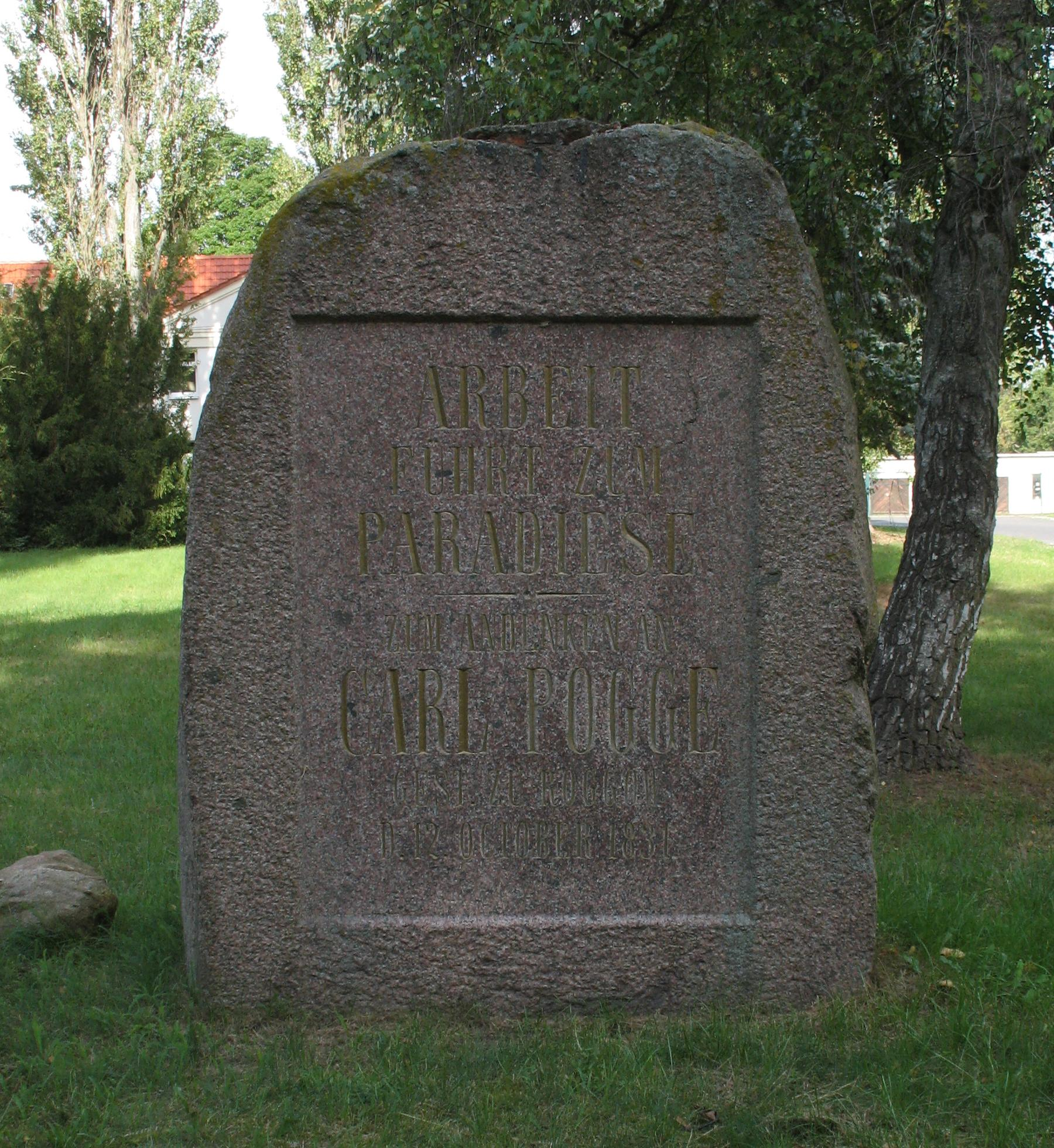 Memorial stone for Carl Pogge in Lalendorf-Roggow in Mecklenburg-Western Pomerania, Germany